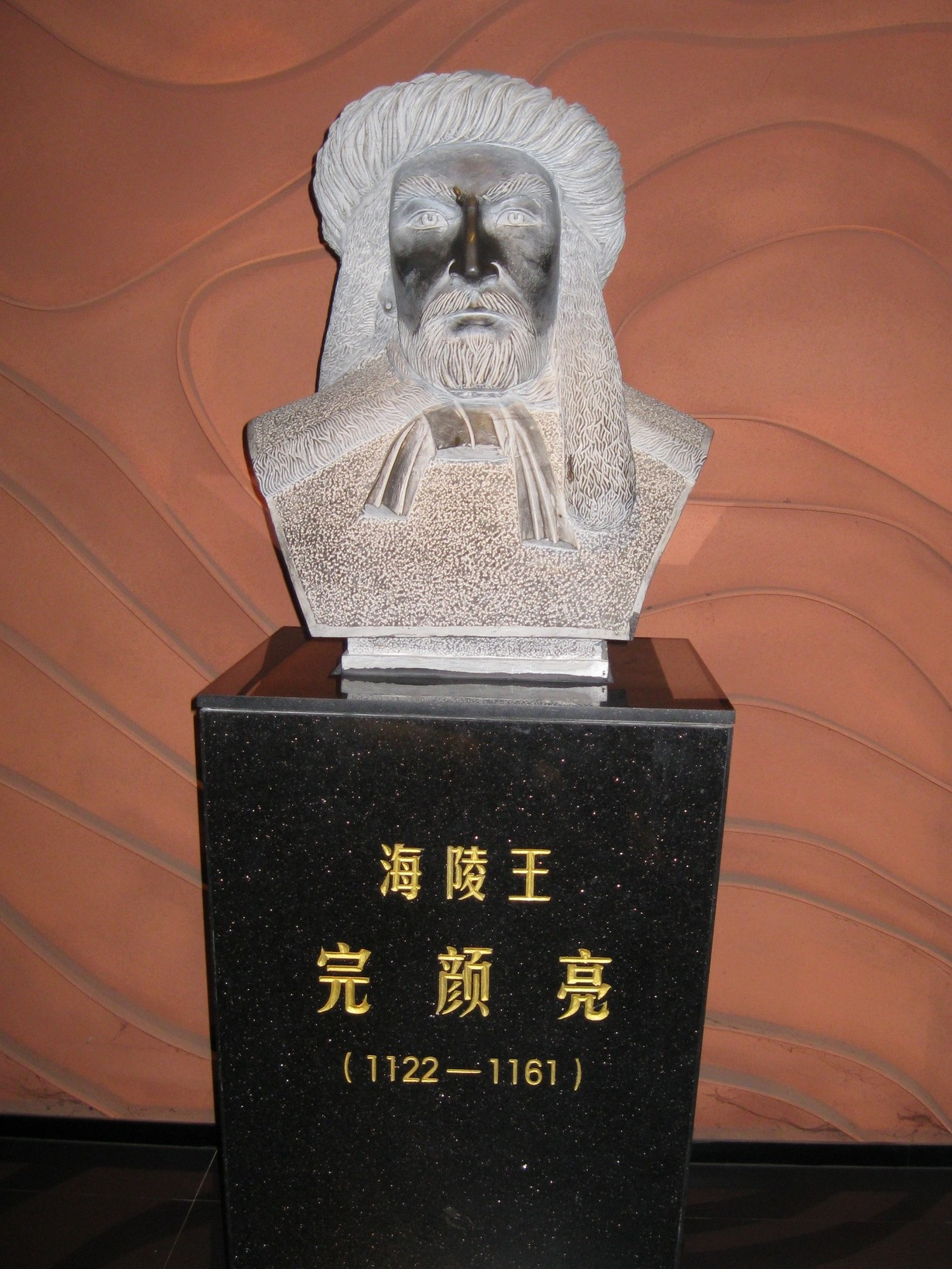 Cropped photo of a bust of Wanyan Digunai, 4th emperor of Jin dynasty. Museum of the First Capital of Jin (Harbin)